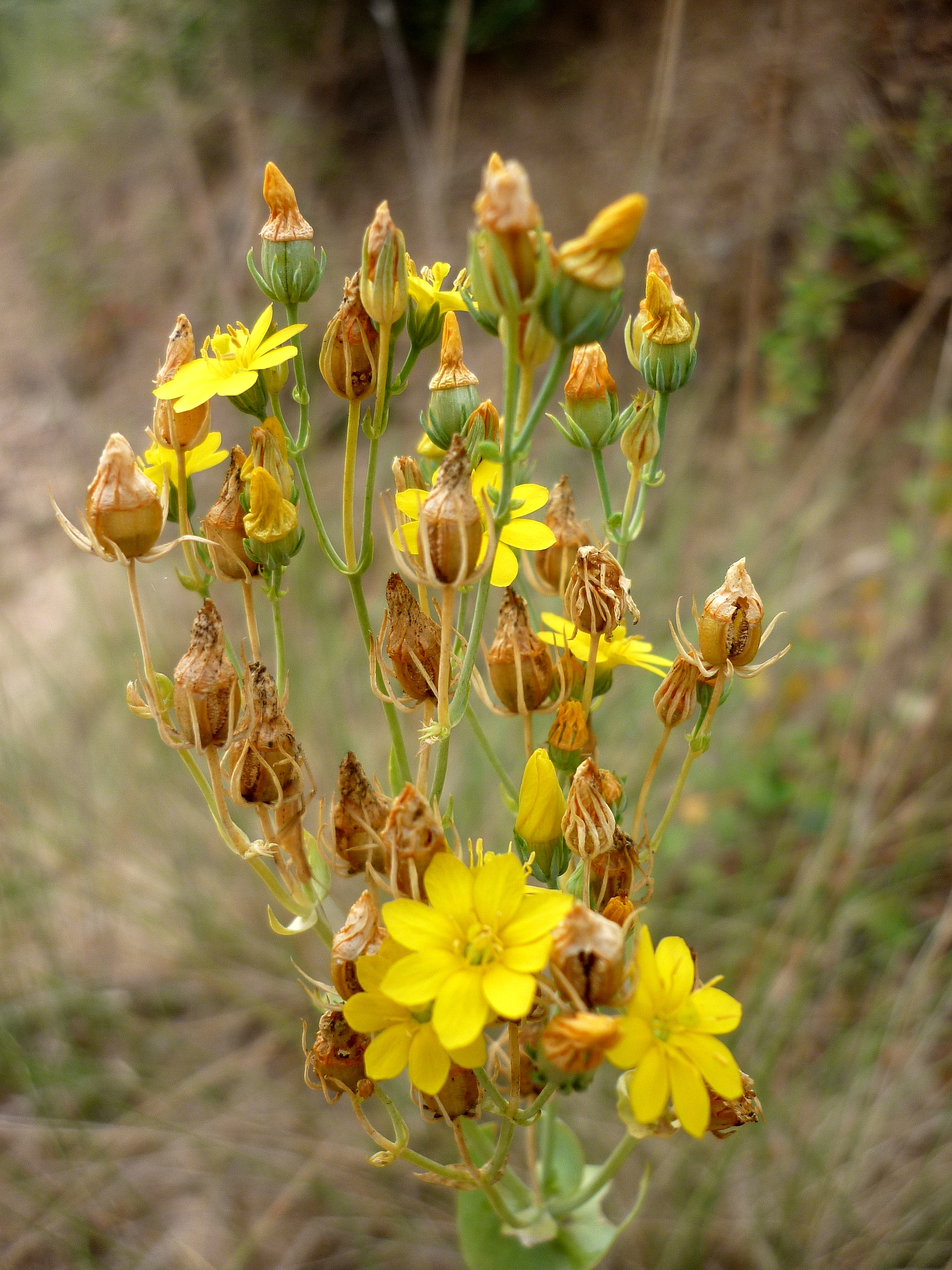 Blackstonia perfoliata. In Torà (Segarra- Catalunya). On 595 m. altitude